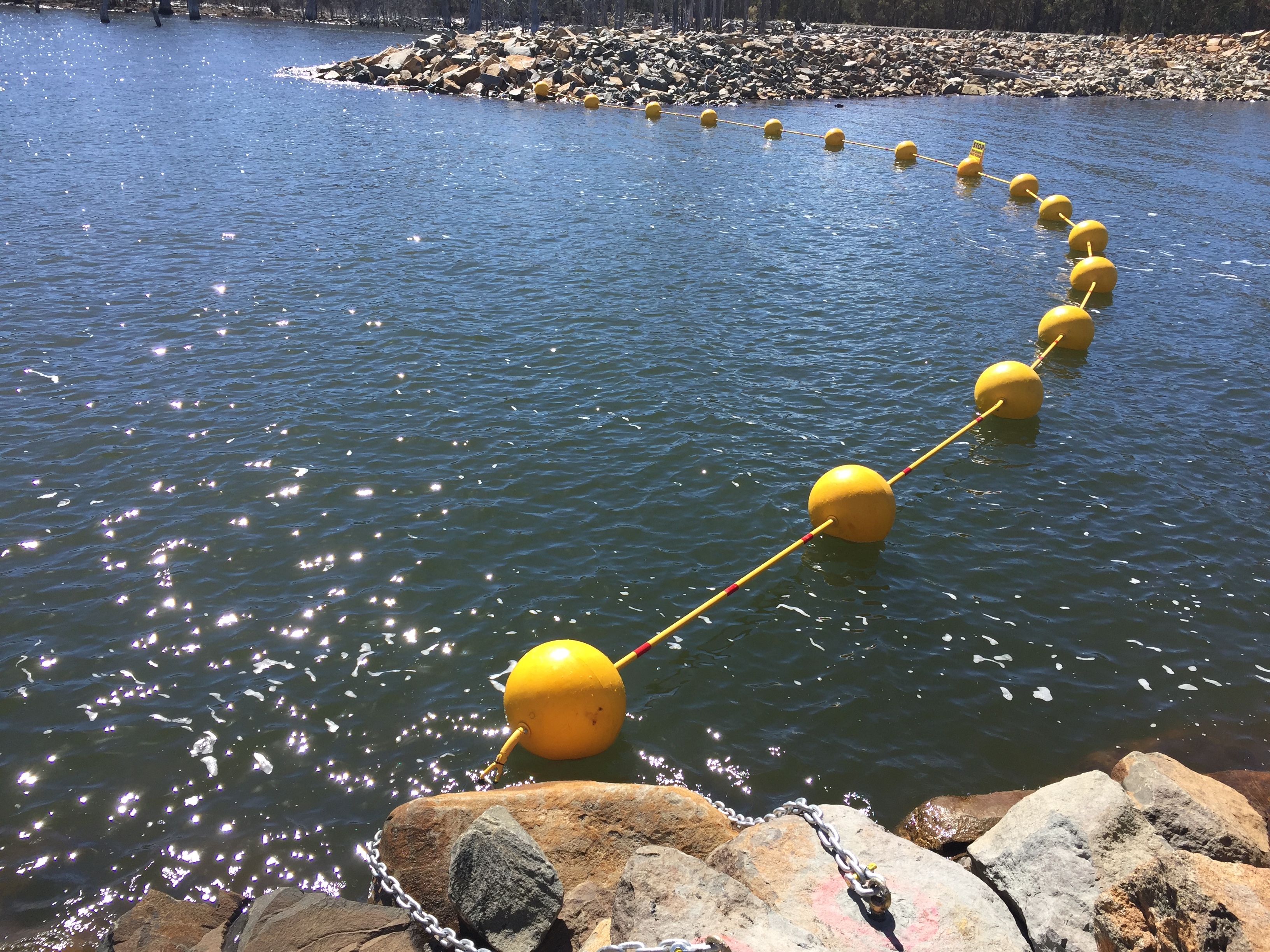 Hydro Tasmania's safety improvements for recreational fishing